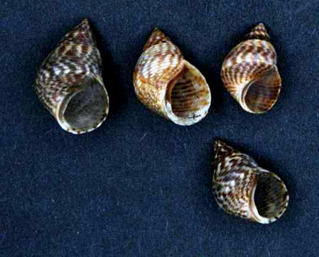 Littoraria intermedia (Philippi, 1846); family Littorinidae; Hawaii